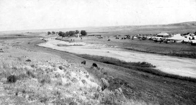 The site of the 1868 Battle of Beecher Island — as it appeared in 1917. Located in Yuma County, northeastern Colorado. The Arickaree flows near the camp. The south channel of the Arickaree has closed up, owing to the stream's sifting silt depositions. Prairie landscape flora covers the terrain. Shown are tents, buildings, horses, and cattle at an annual scout reunion near Wray, to commemorate the battle. The "Battle of Beecher Island Monument" is visible in the distance. Beecher Island is on the National Register of Historic Places. Credits File copied from Photographer was Earl Alonzo Brininstool (died 1957).